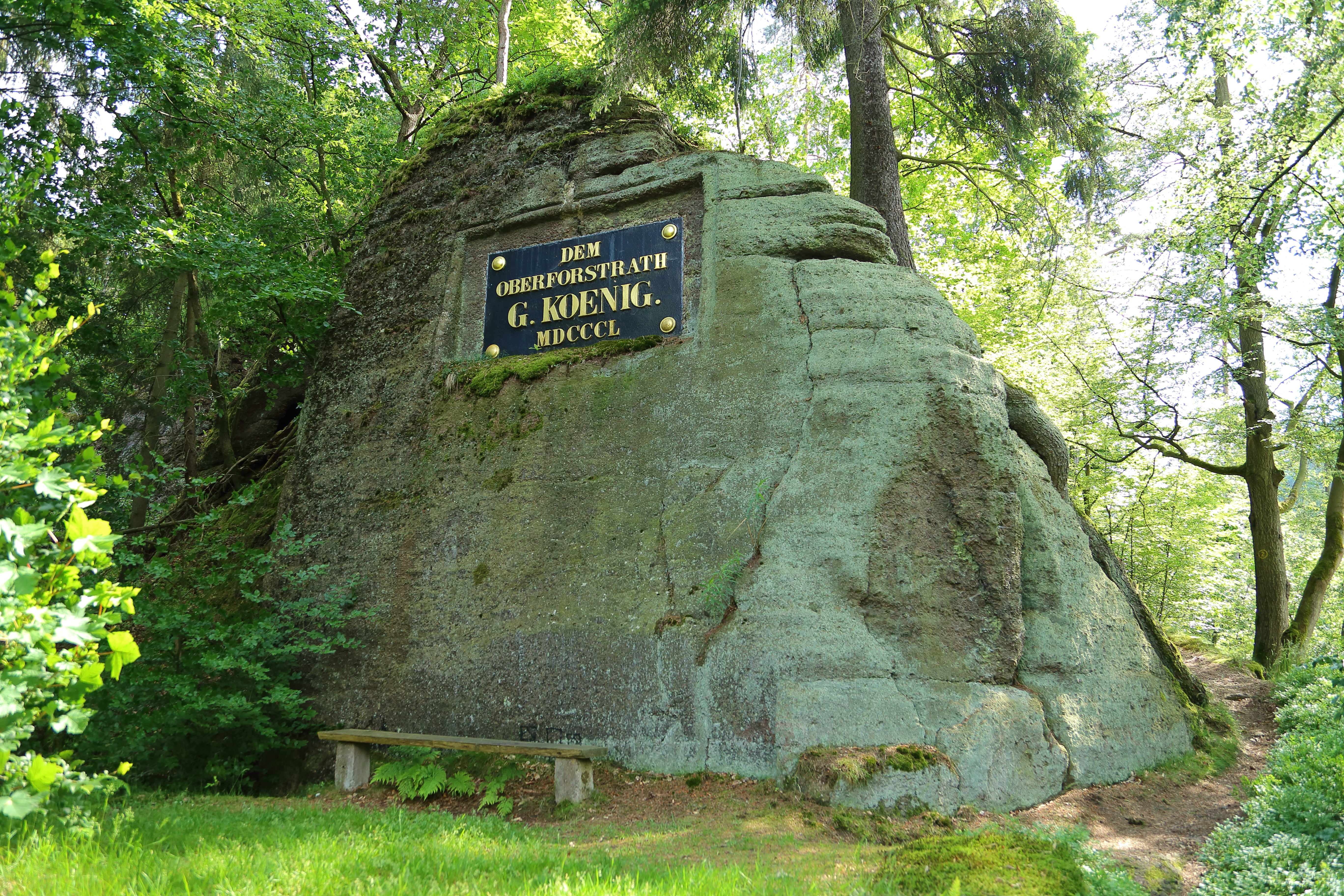 The König Stone (Königstein) in Mary's Valley (Mariental) near Eisenach, Thuringia, Germany. This rock formation is named in honor of forestry scientist Dr. Gottlob König.